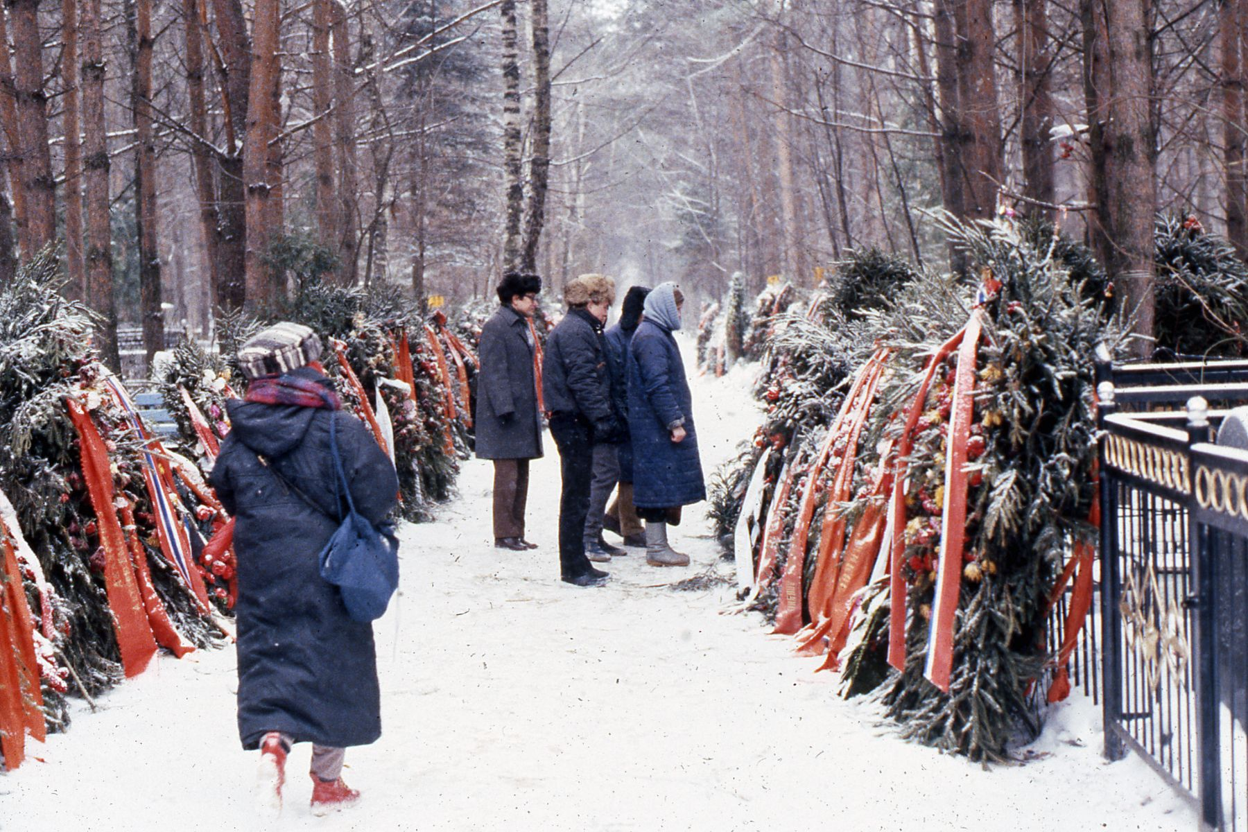 People gathered at the grave of Andrei Sakharov at the Vostryakovskoye Cemetery in Moscow, January 1990. Snow is on the ground, and funeral wreaths are much in evidence. Other information Photo by George Garrigues.